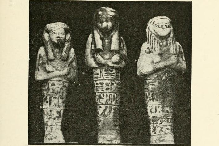 Some ushabtis belonged to women of the royal family during the 21st dynasty. Faience, unknown provenience, Third Intermediate Period, now in the Petrie Museum. Left: an uncertain Isetemkheb, could be the wife of the High Priest of Amun Menkheperre (Isetemkheb C) as well as his daughter (Isetemkheb D); Center: Henuttawy D, God's Wife of Amun, daughter of the High Priest of Amun Pinedjem II; Right: Neskhons, wife of the High Priest of Amun Pinedjem II.